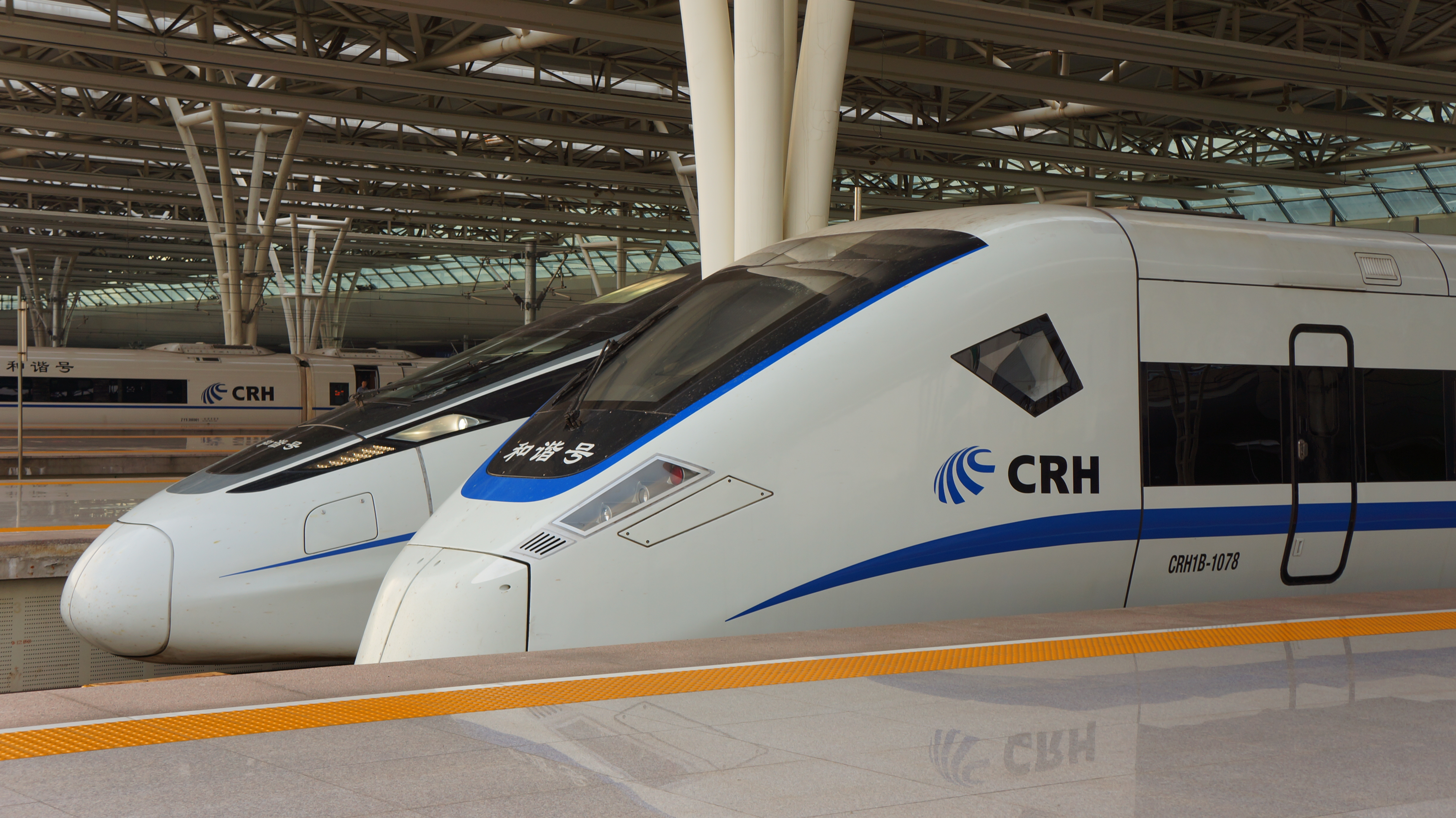 Two Bombardier EMUs at Shanghai Hongqiao Railway Station